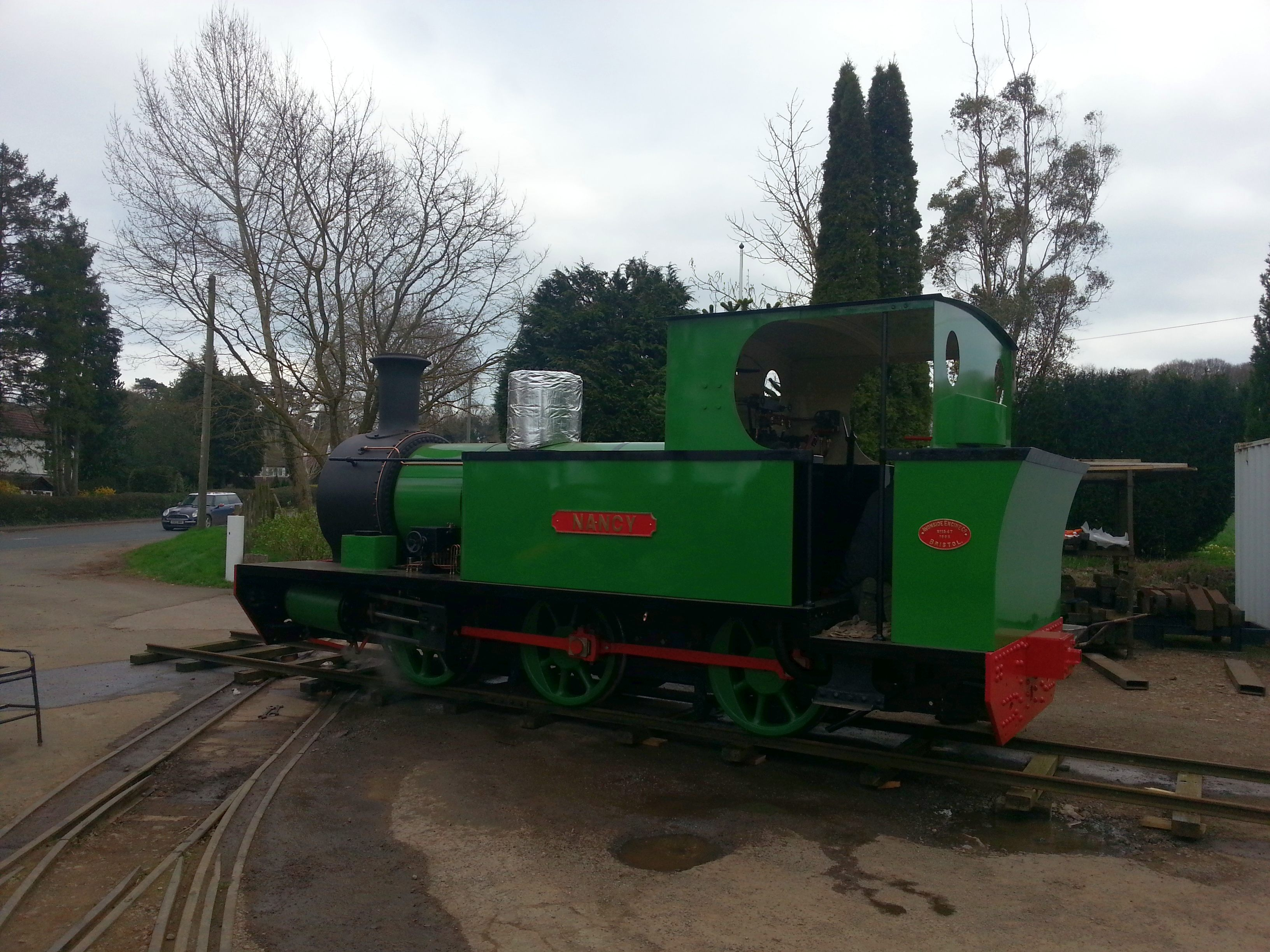 First steaming day for Nancy, at Alan Keef's workshop.